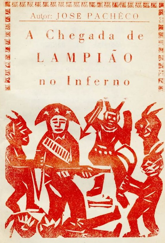 Corver art for the cordel "The Arrival of Lampião in Hell". Made with woodcut in traditional Brazilian style.